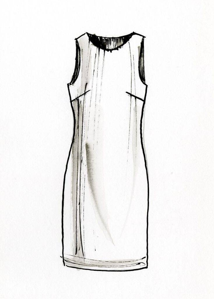 Drawing of the Thesaurus concept : 'shift dress'